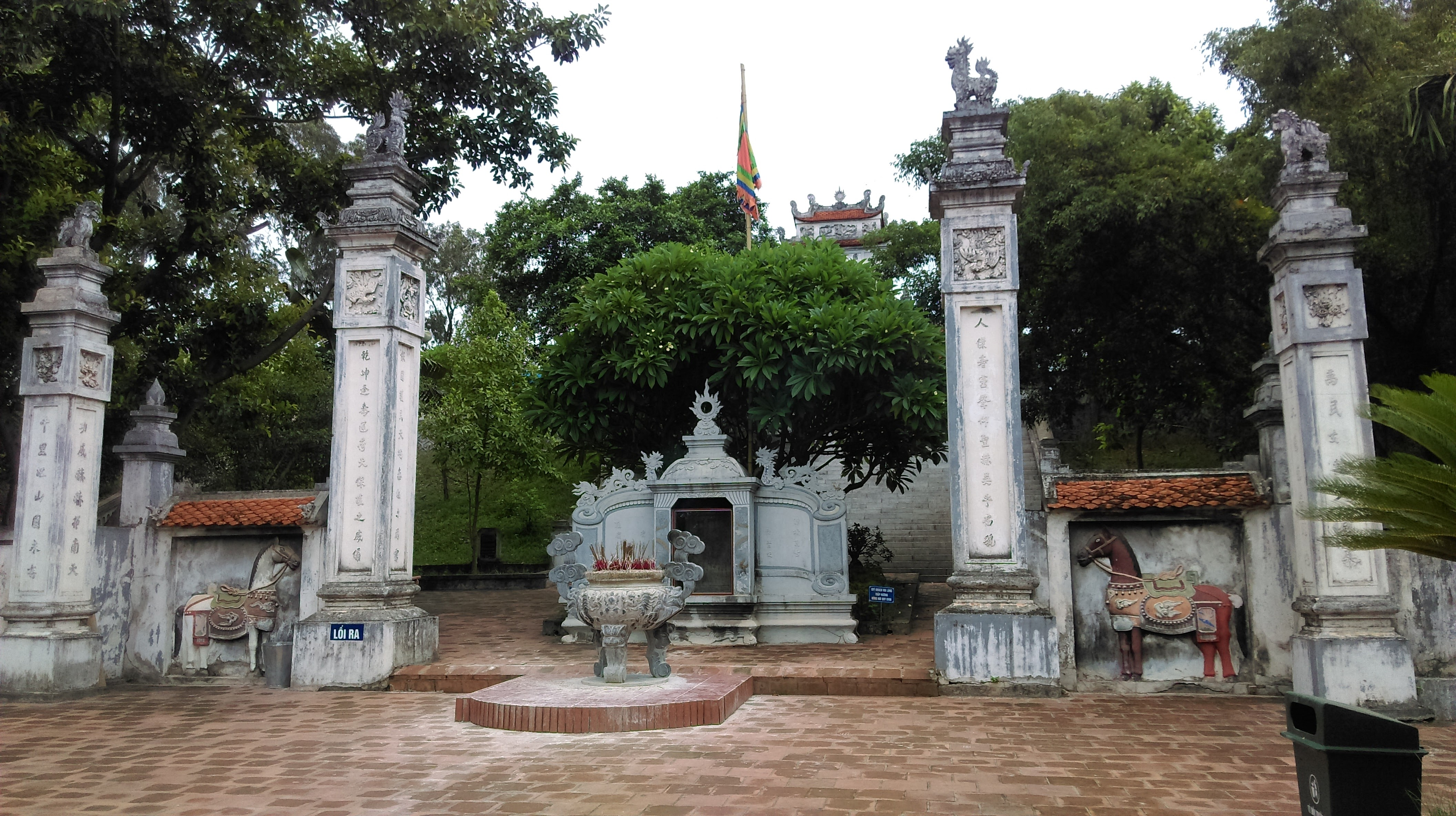 Temple of Cuong, Dien An commune, Dien Chau District